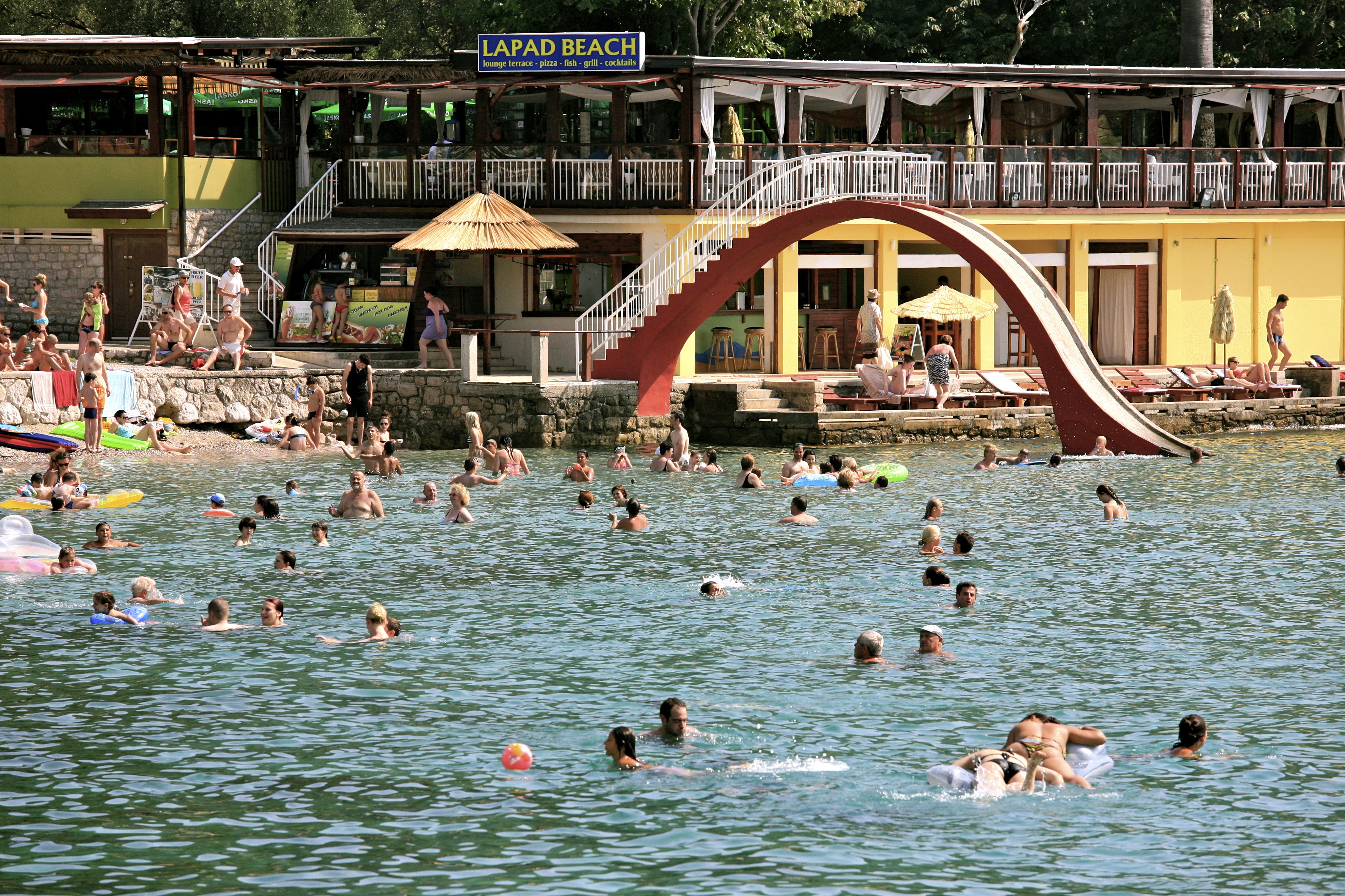 Lapad Beach, Dubrovnik.